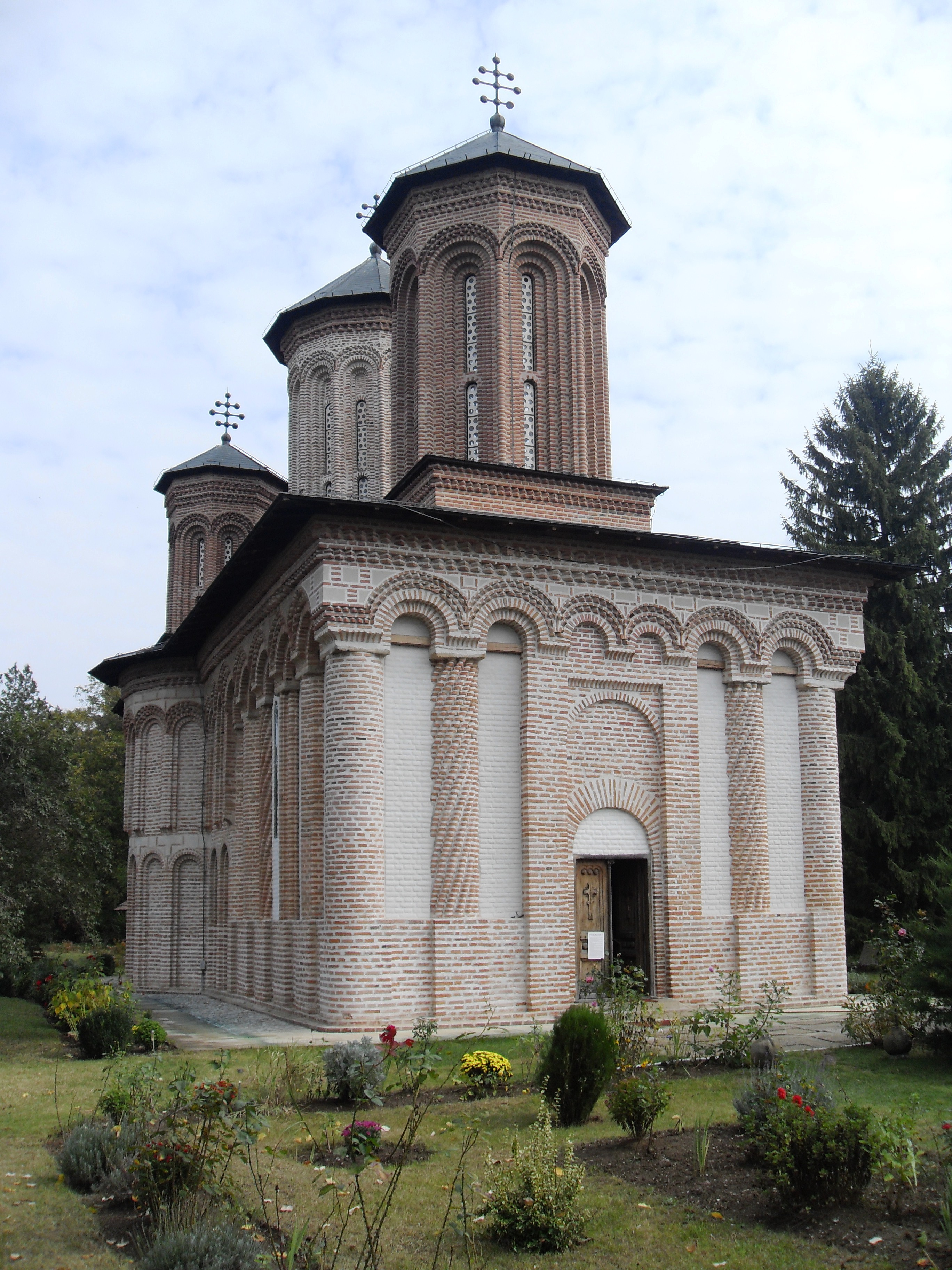 View of the Snagov monastery, where Vlad III the Impaler is supposed to be graved. The monastery is located in an island of the Lake Snagov, near Bucharest